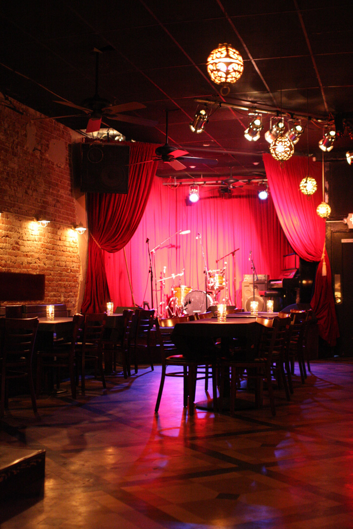 The Hotel Cafe stage in Hollywood